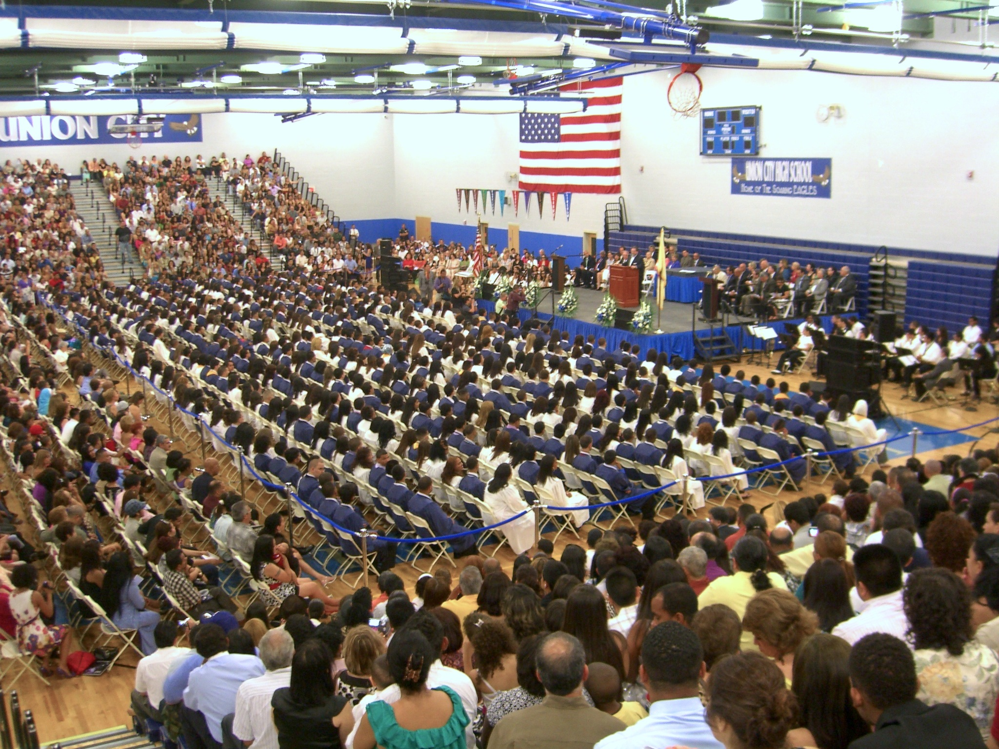 The June 23, 2010 commencement ceremony for Union City High School’s Class of 2010 in Union City, New Jersey. This was the historic inaugural commencement ceremony for the school's first graduating class, as the school first opened September 3, 2009, the first new high school in Union City in 90 years. Giving the keynote address at the podium is New Jersey Supreme Court Justice Roberto A. Rivera-Soto. Photographed by Luigi Novi. This photo is not in the public domain. It may, however, be used, modified and published for any purpose, only if an easily visible credit to the photographer is placed near the photo in each instance in which it is used. (See licensing information below.) Publication of this photo without this proper attribution constitutes copyright infringement. For more information on my photos, you can contact me here.